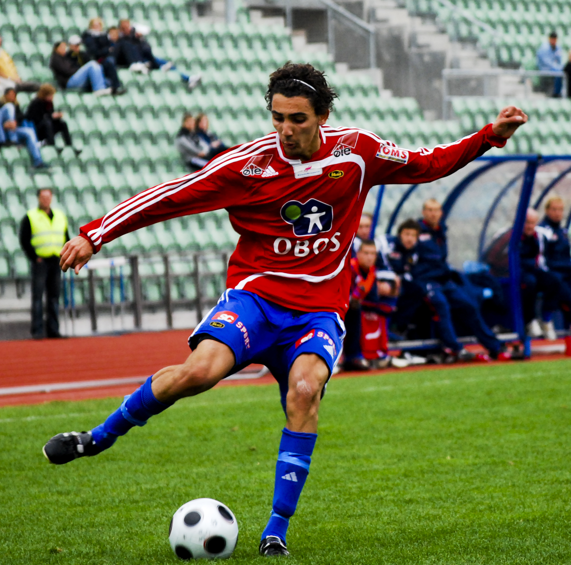 Norwegian footballer Mostafa Abdellaoue, playing for Skeid.